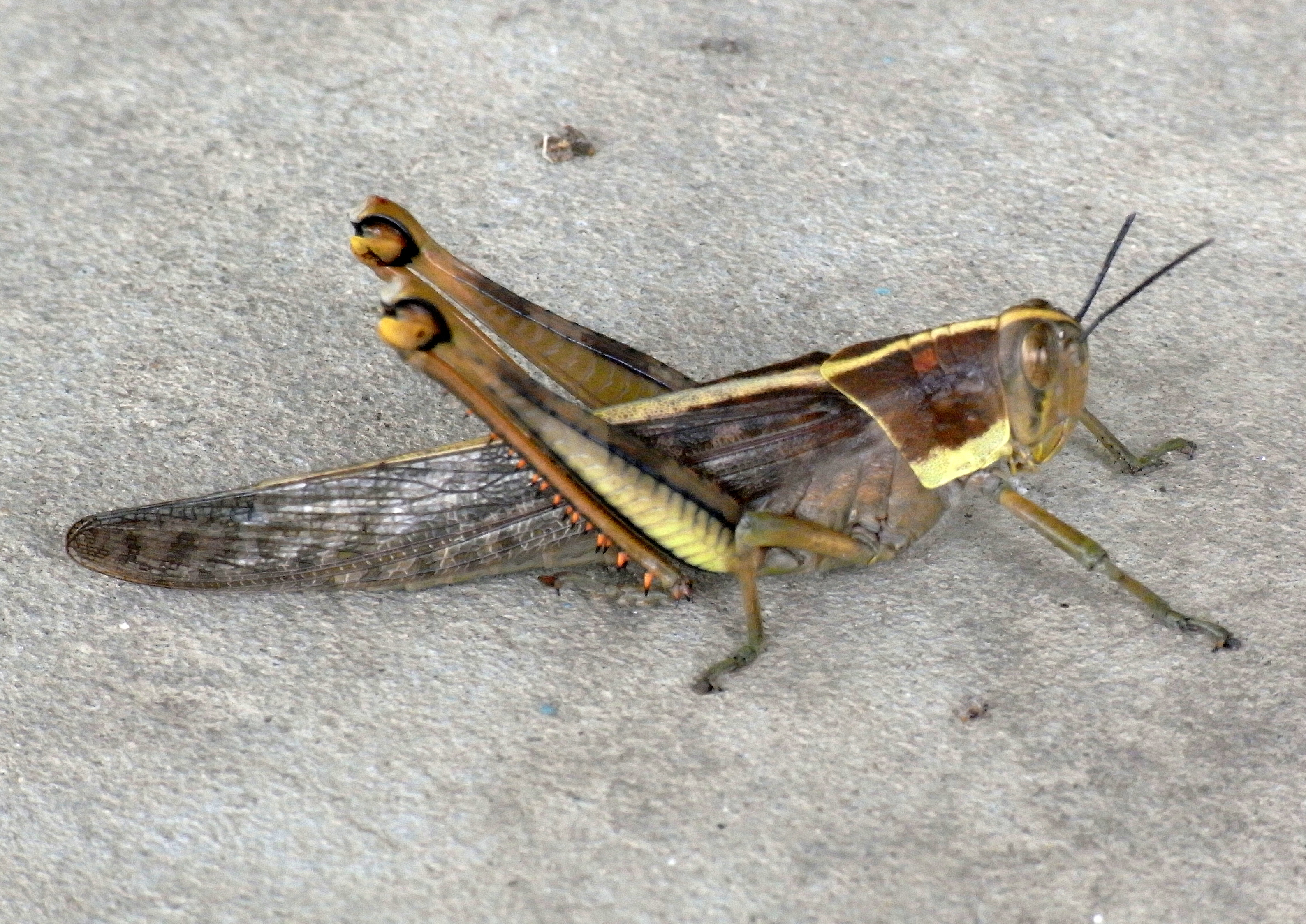 Giant Grasshopper/Hedge Grasshopper (Valanga irregularis) found on a concrete floor in Canungra, Queensland, Australia.